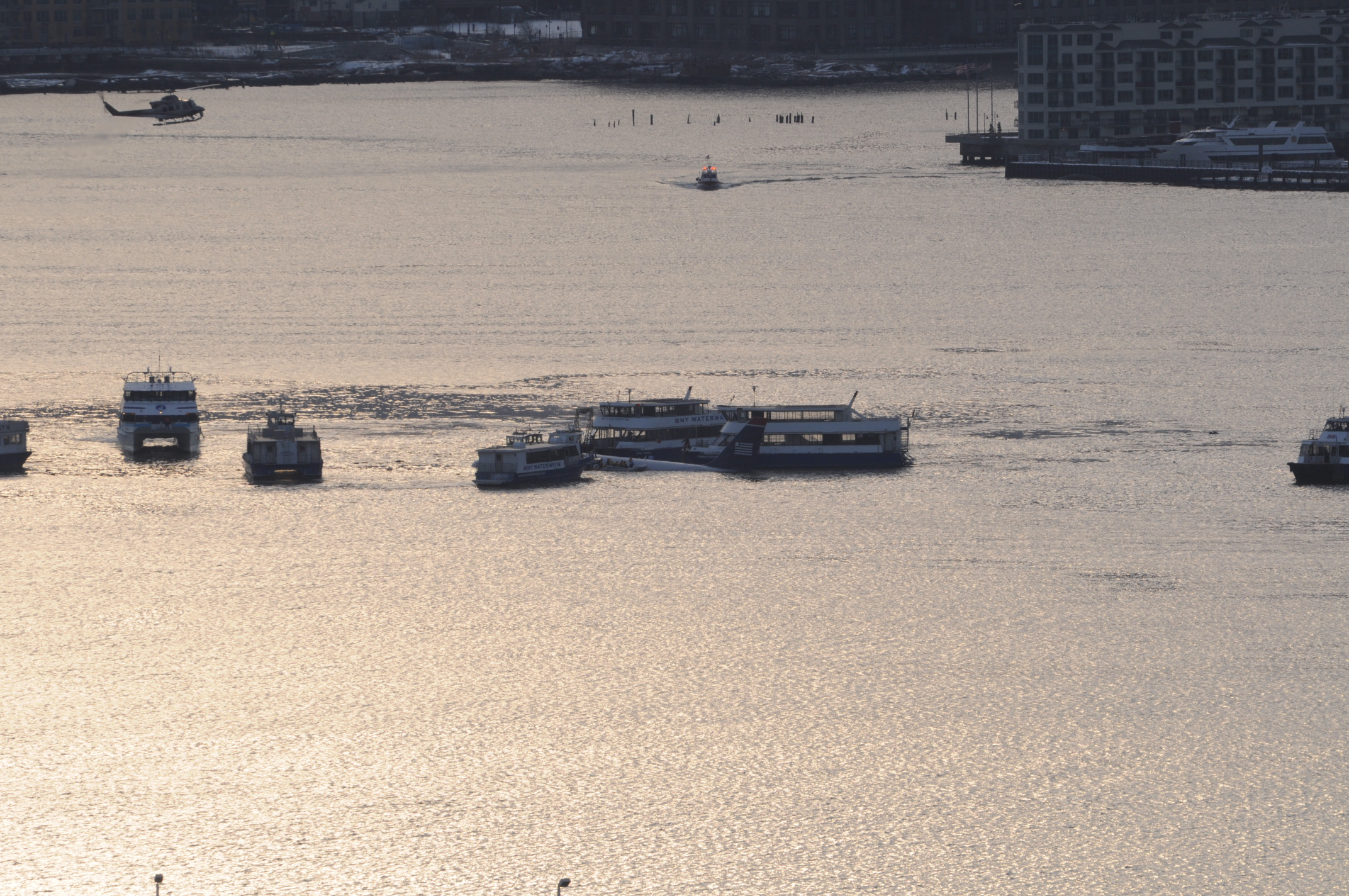 US Airways Flight 1549 in the Hudson River, New York, USA, on 15 January, 2009.